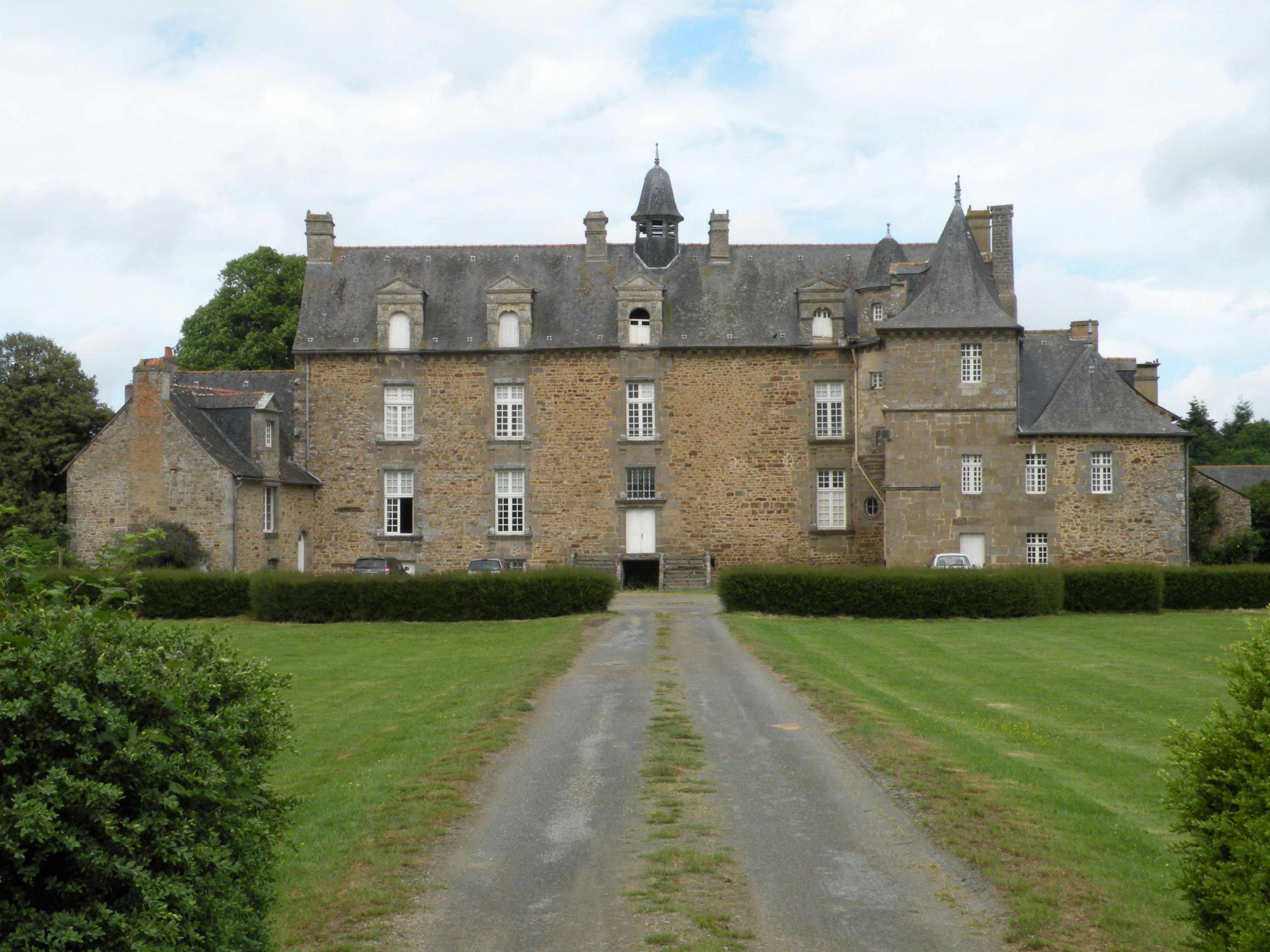 Castle of La Chapelle-aux-Filtzméens.